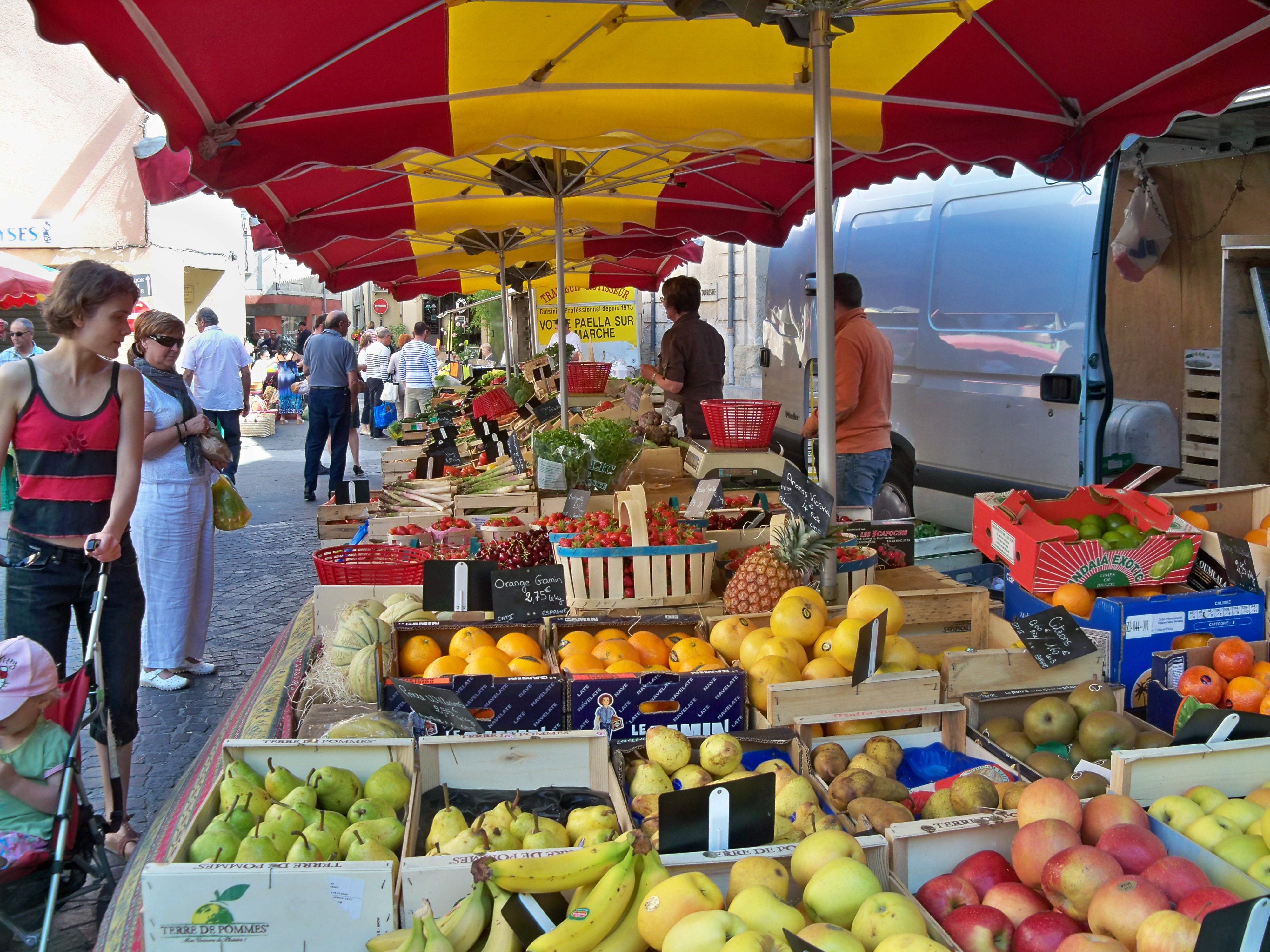 weekly market in L'Isle sur la Sorgue, Vaucluse, France.